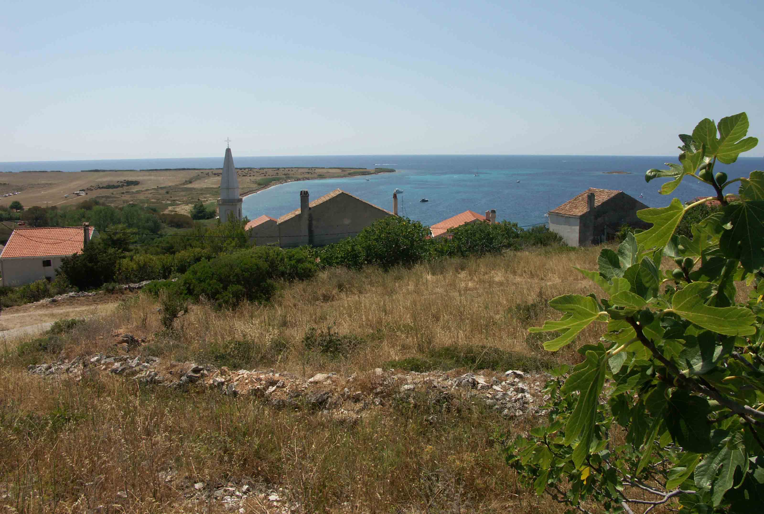 Unije, island in Croatia photo:Ziga 12:12, 16 April 2007 (UTC)